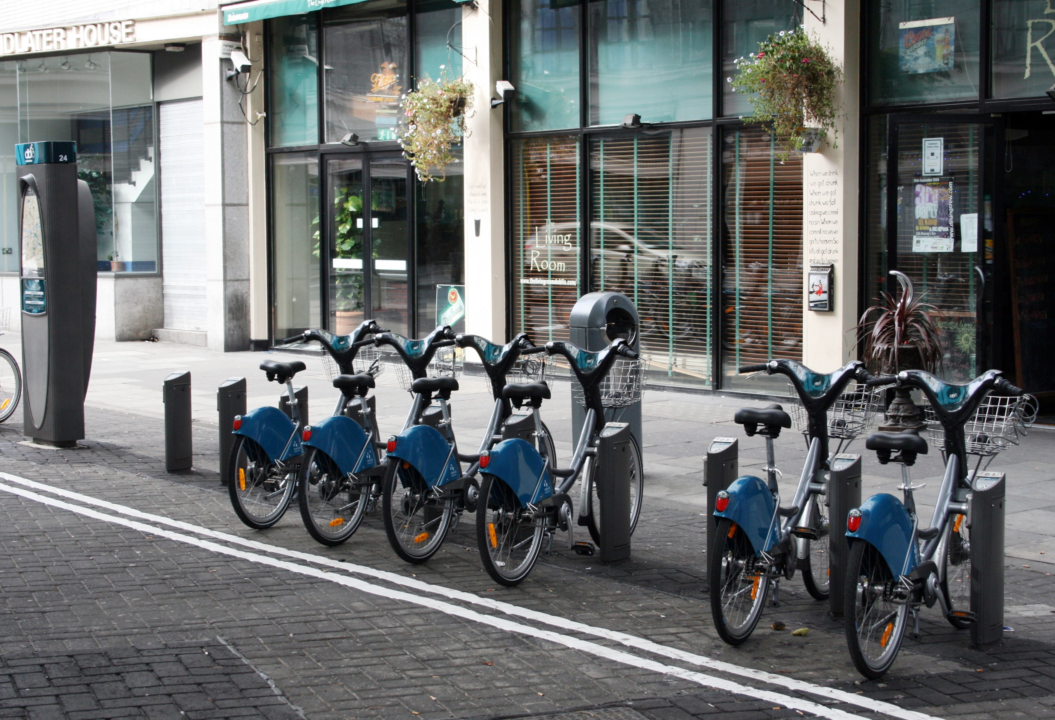 Rental station of the public bicycle service "Dublinbikes" in front of Pub "The Living Room", Cathal Brugha Street, Dublin 1 in Dublin, Ireland